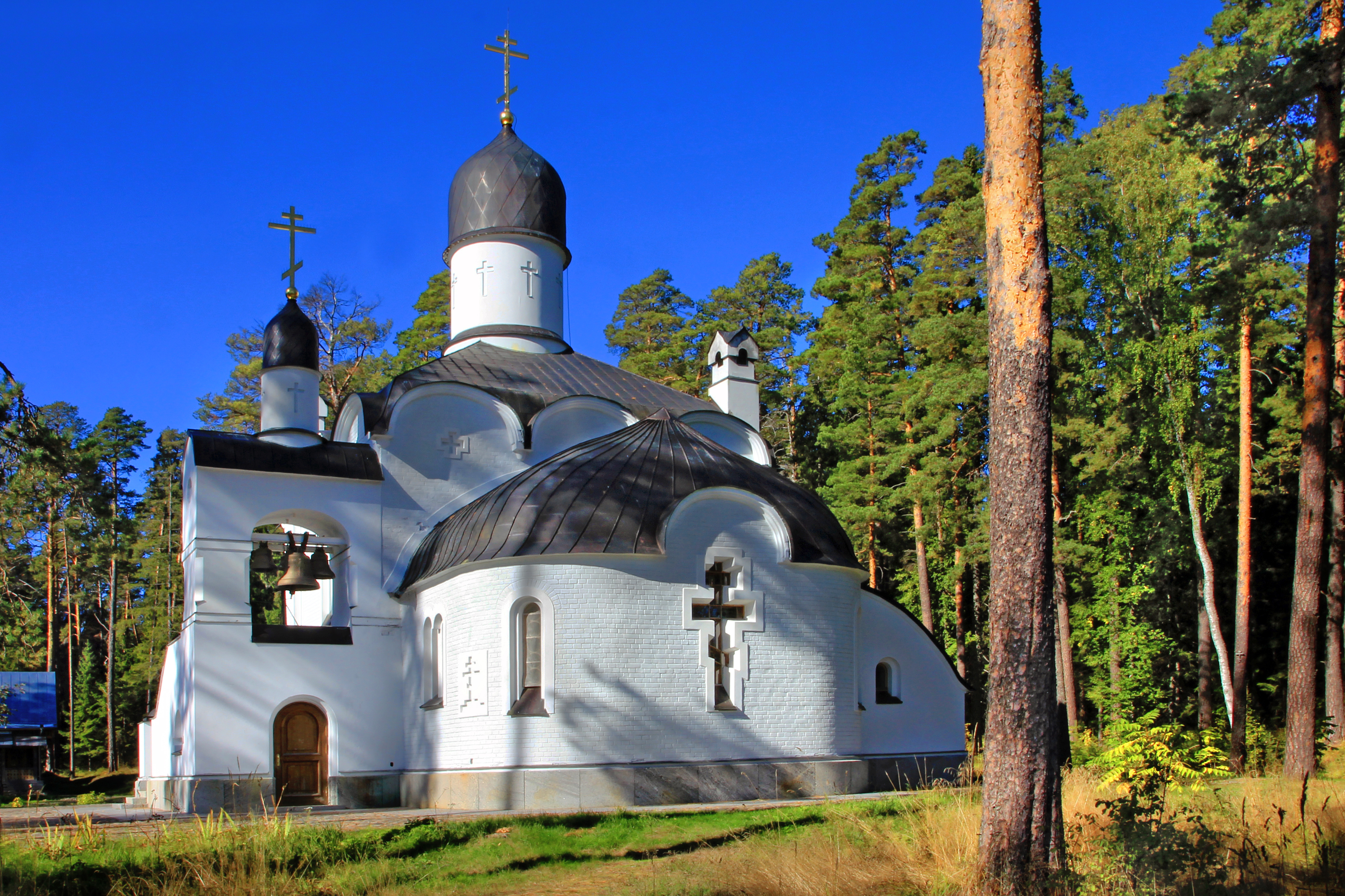 The Skit of Smolensky on the Valaam (Valamo), Republic of Karelia, Russian Federation.